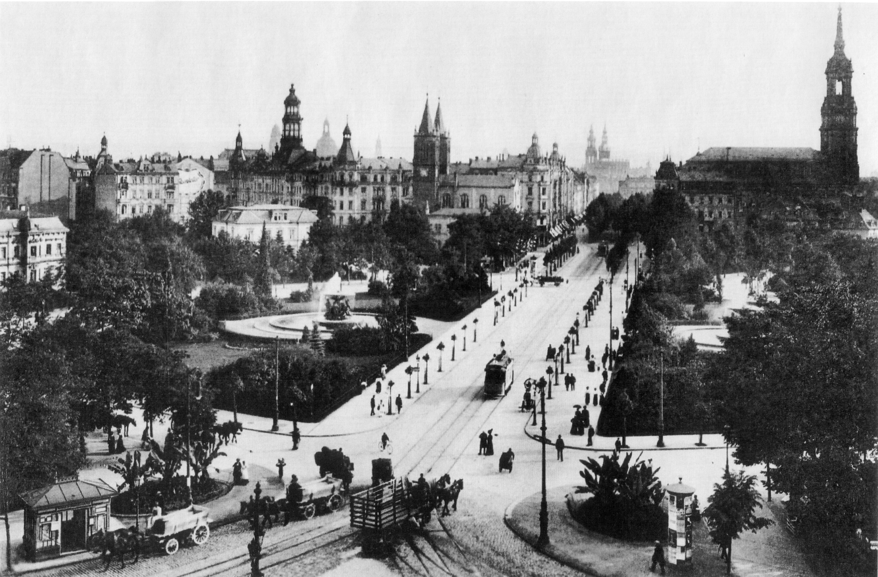 Dresden (Saxony, Germany) - Neustadt - Albertplatz, Hauptstraße and Dreikönigskirche, around 1905 ;Modifications :colour balanced, median-filtered with 1px